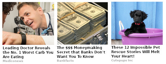 Fictional example of clickbait style adverts. This file was derived from:✦ Street Doctoring.jpg: ✦ Money-1428594 1920.jpg: ✦ Cute Puppy - panoramio.jpg